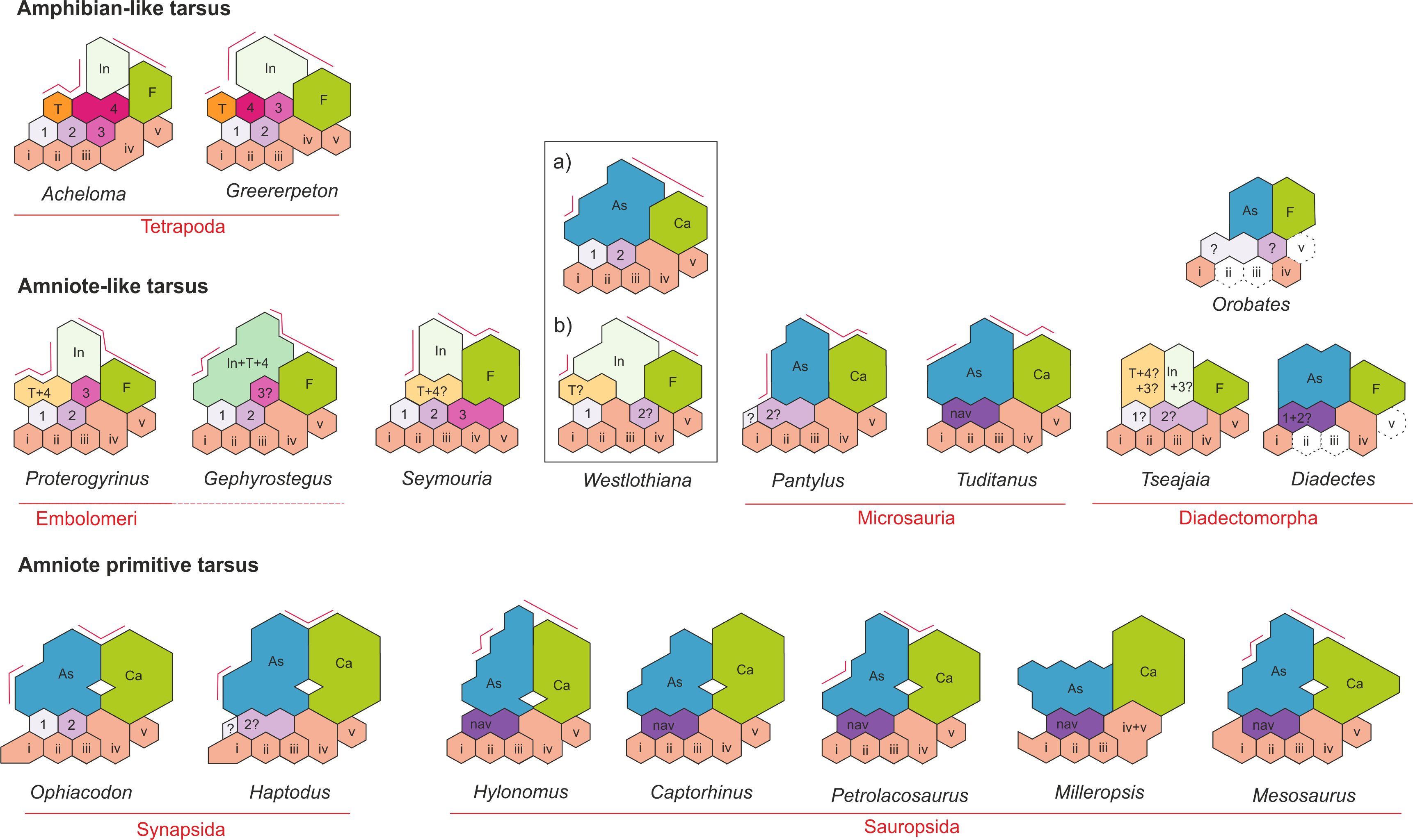 Figure 10: Tarsus structure in basal tetrapods, including amniote and non-amniote taxa. Schematic diagram for comparing the tarsus structure in the basal tetrapods Acheloma and Greererpeton (amphibian-like tarsus) with regard to that of embolomeres and microsaurs (amniote-like tarsus) and early amniotes. Note the similar structure and construction of the microsaur tarsus with respect to the early amniote Hylonomus. See text for more details of the evolutive significance of the selected taxa. Abbreviations: As, astragalus; Ca, calcaneum; F, fibulare; I, intermedium; T, tibiale; 1, 2, 3, 4, centralia; i, ii, iii, iv, v, distal tarsals. Taxa were redrawn from the following sources: Acheloma (Dilkes, 2015); Greererpeton (Godfrey, 1989); Proterogyrinus (Holmes, 1984); Gephyrostegus (Carroll, 1970); Seymouria (Berman et al., 2000); Westlothiana (Smithson, 1989; Smithson et al., 1994); Pantylus (Carroll, 1968); Tuditanus (Carroll, 1968); Diadectomorphs (Moss, 1972; Berman & Henrici, 2003); Ophiacodon and Haptodus (Romer & Price, 1940); Hylonomus (Carroll, 1964); Captorhinus (Fox & Bowman, 1966); Petrolacosaurus (Peabody, 1952; Reisz, 1981).